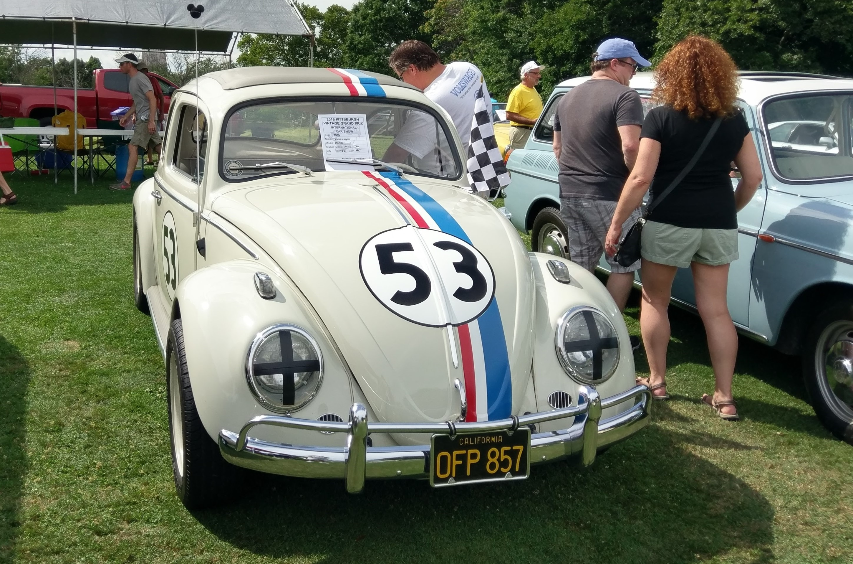 A 1959 Volkswagen Beetle used by Walt Disney Productions for the 1968 film The Love Bug